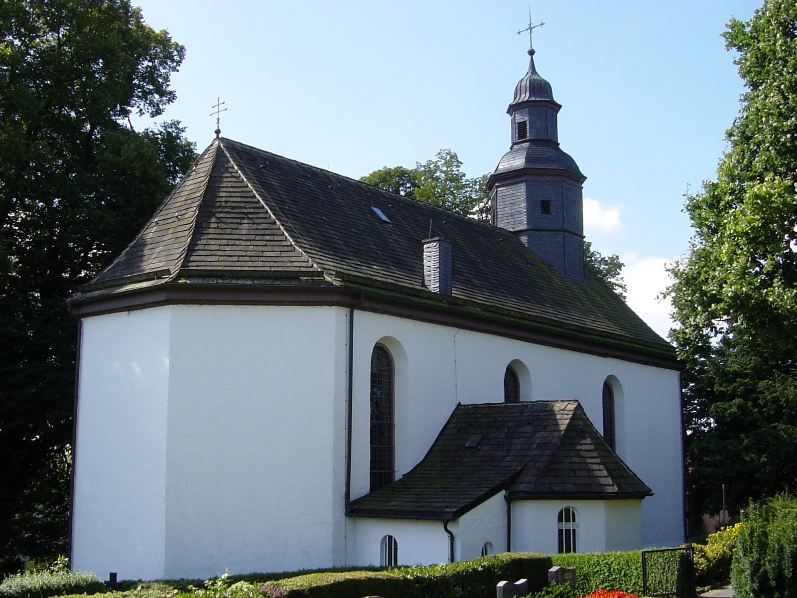 Catholic parish church St. Marien Bosseborn, Höxter (Germany)